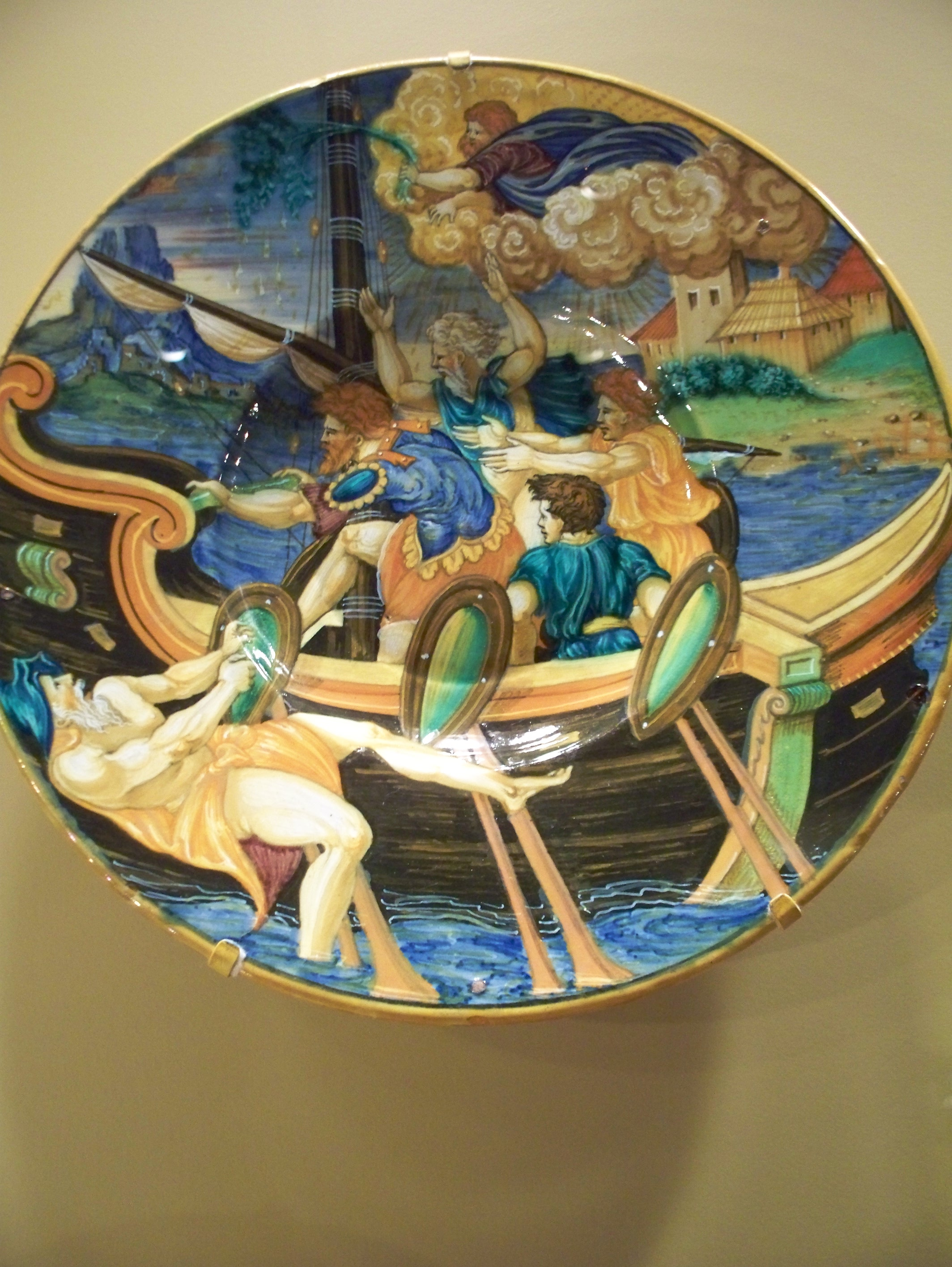 Plate with Palinurus Overboard Francesco Xanto Avelli da Rovigo Urbino, 1535 Maiolica, Diam. 29.7 cm. Taft Museum of Art, Taft collection, March 6, 1924 1931.239 Wikipedia Loves Art at the Taft Museum of Art This photo of item # 1931.239 at the Taft Museum of Art was contributed under the team name "Opal_Art_Seekers_4" as part of the Wikipedia Loves Art project in February 2009. Taft Museum of Art The original photograph on Flickr was taken by Forever Wiser—please add a comment to the original Flickr page whenever a use has been made on Wikipedia or another project. Project galleries on Flickr: this institution, this team